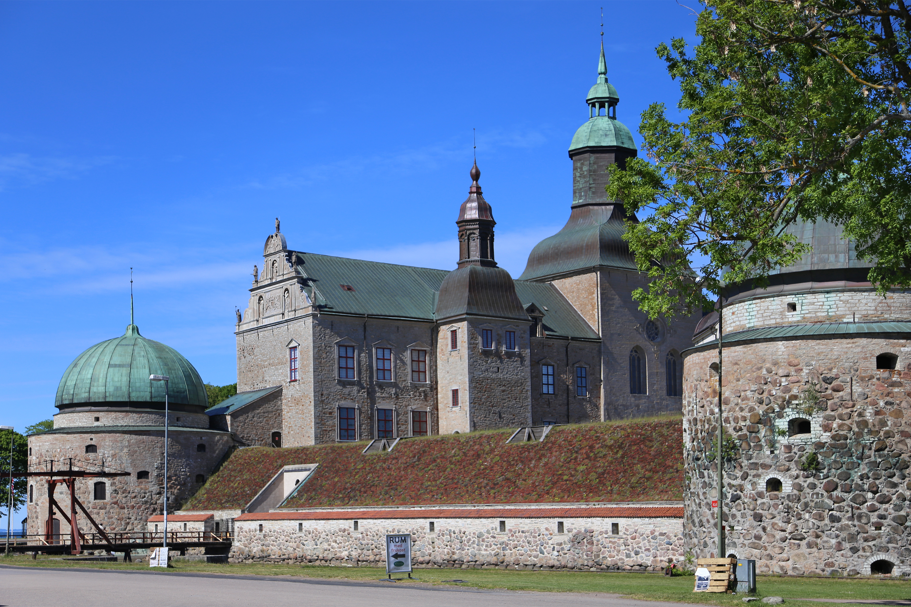 Vadstena Castle, a Swedish Renaissance castle from the 16th century. It is a square fortress with a moat.